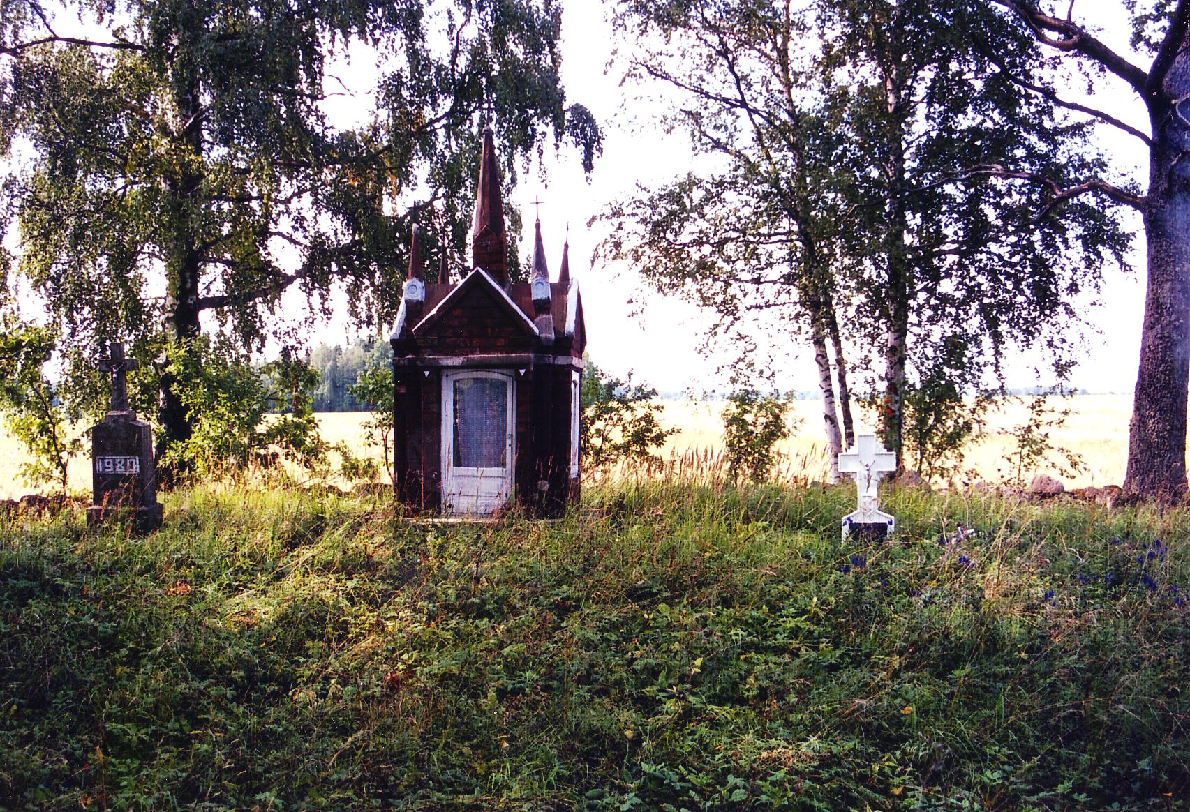 Jakštaičiai cemetery, Kretinga district, Lithuania